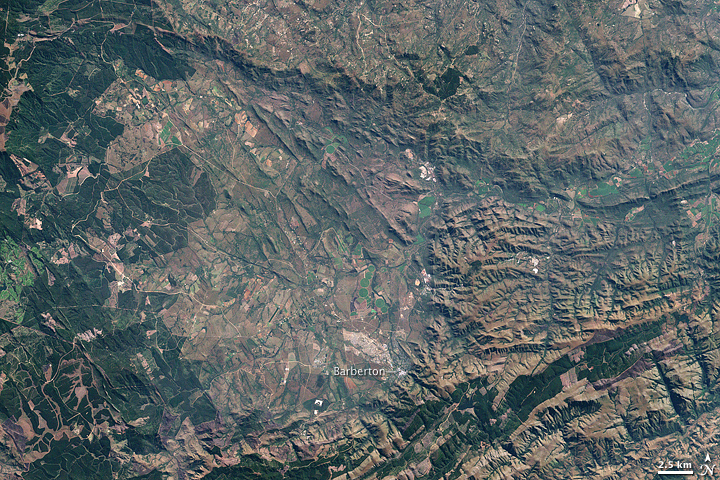 Barberton Mountains, South Africa. Taken by the Enhanced Thematic Mapper Plus sensor on NASA’s Landsat 7 satellite acquired this natural-color image of the Barberton Mountains on May 1, 2001.